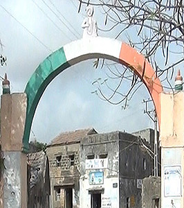 The photo shows the entrance to the gham of Bakharla.